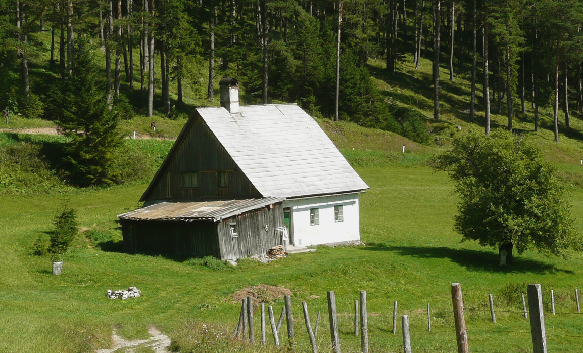 Farm in Frein an der Mürz, between Mürzsteg and the Lahnsattel , Mürz valley, Styria